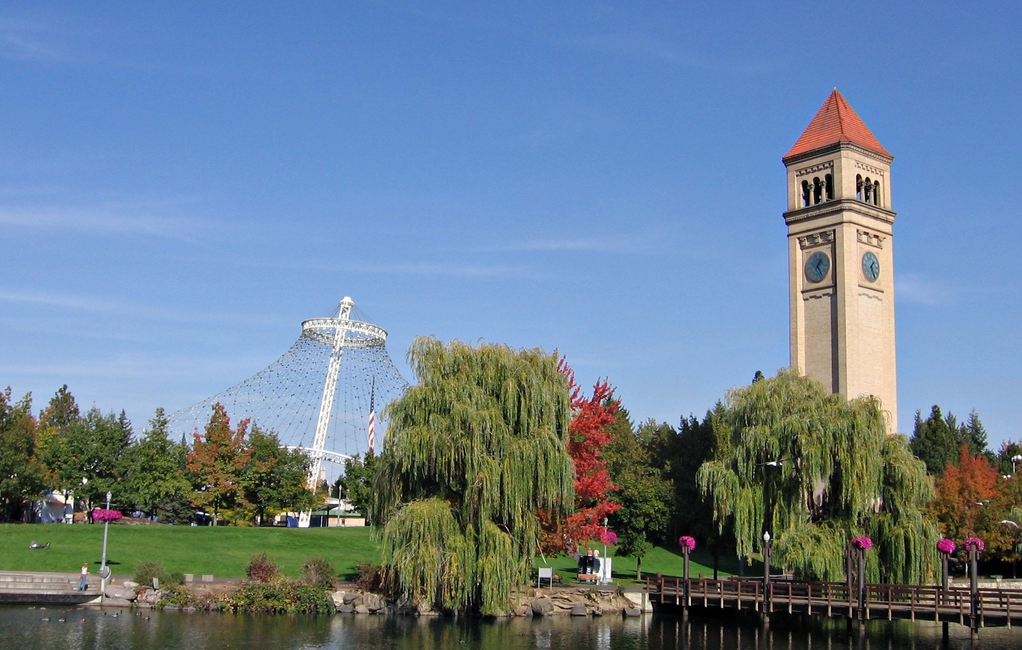 The Great Northern Railway Depot clock tower and United States Pavillion in Spokane's Riverfront Park.